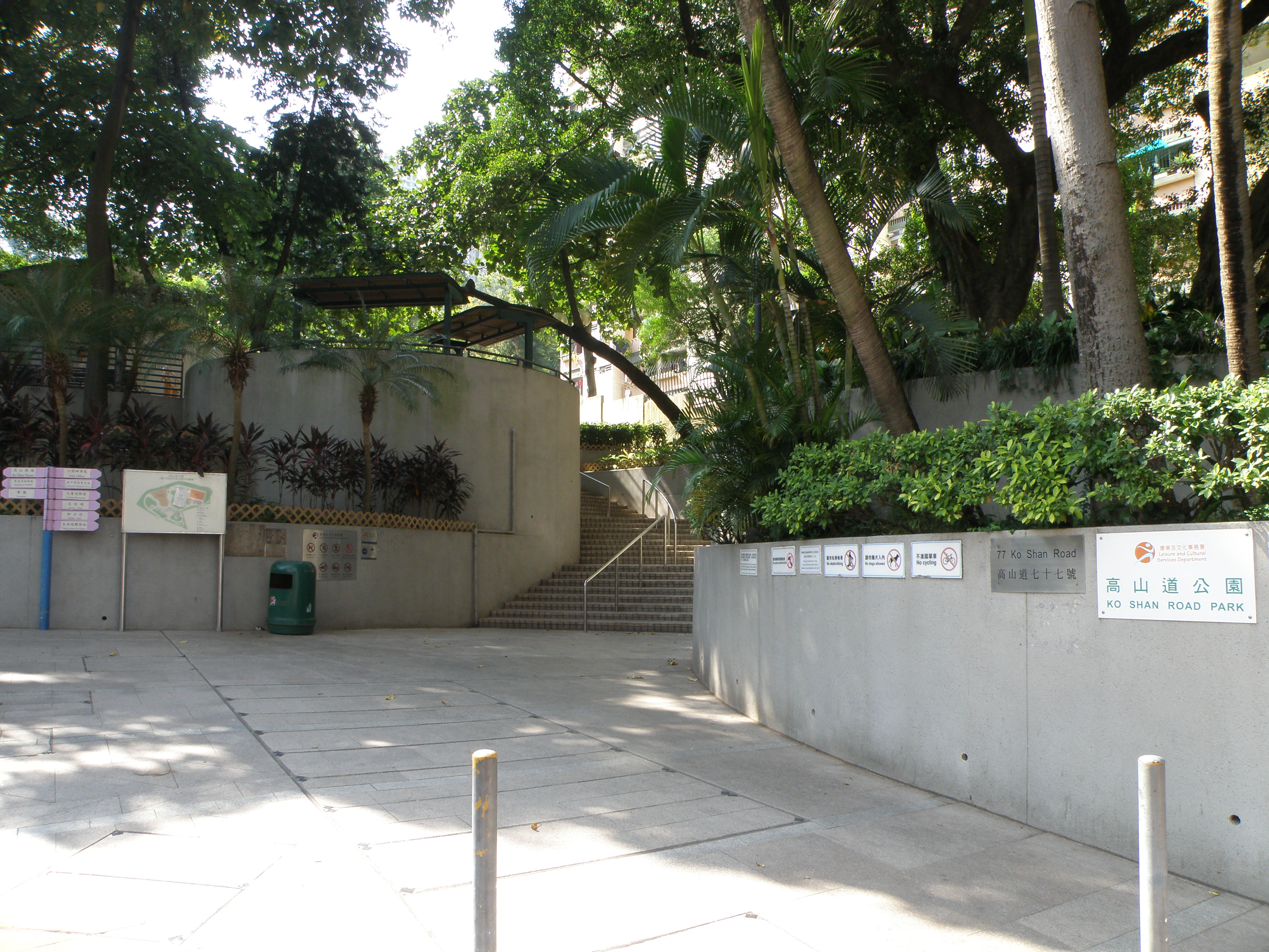 Ko Shan Road Park in Ho Man Tin, Hong Kong.